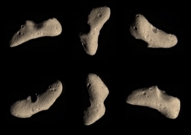 These color images of Eros was acquired by NEAR on February 12, 2000, at a range of 1800 kilometers (1100 miles) during the final approach imaging sequence prior to orbit insertion. A five and one-half hour long sequence of images covering visible and infrared wavelengths was taken at that time, to provide a global overview of the color and spectral properties of the asteroid. The images show approximately the color that Eros would appear to the unaided human eye. Eros' subtle butterscotch hue at visible wavelengths is nearly uniform across the surface. Two days after these images were taken, mapping by NEAR's infrared spectrometer showed that Eros exhibits a great deal more variety at longer wavelengths. These variations could be due to differences in texture or composition of the surface. Both NEAR's multispectral imager and infrared spectrometer will be used extensively during the month of March to map Eros' color and spectral properties from an altitude of 200 kilometers (120 miles). The images to be returned will show details as small as 20 meters (68 feet) across, providing a new perspective on the asteroid's many fascinating landforms discovered so far by NEAR. Built and managed by The Johns Hopkins University Applied Physics Laboratory, Laurel, Maryland, NEAR was the first spacecraft launched in NASA's Discovery Program of low-cost, small-scale planetary missions. See the NEAR web page at for more details.